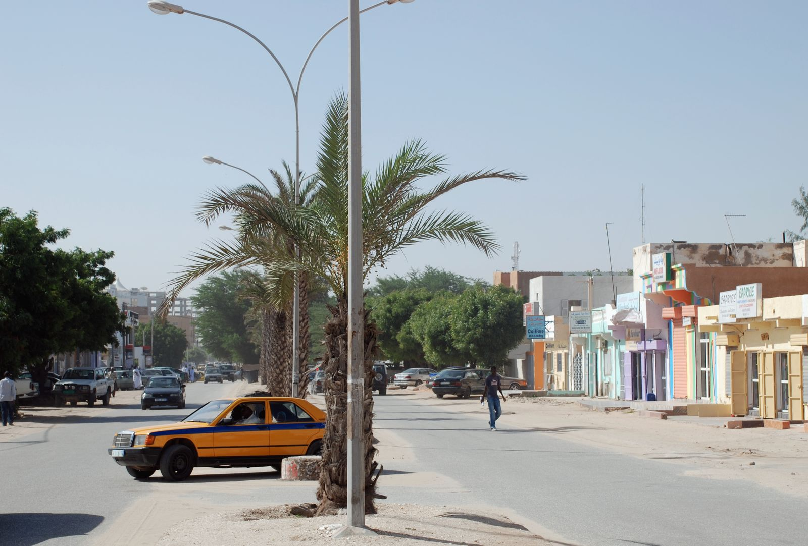 Nouakchott, Mauritania, Avenue Genéral du Gaulle